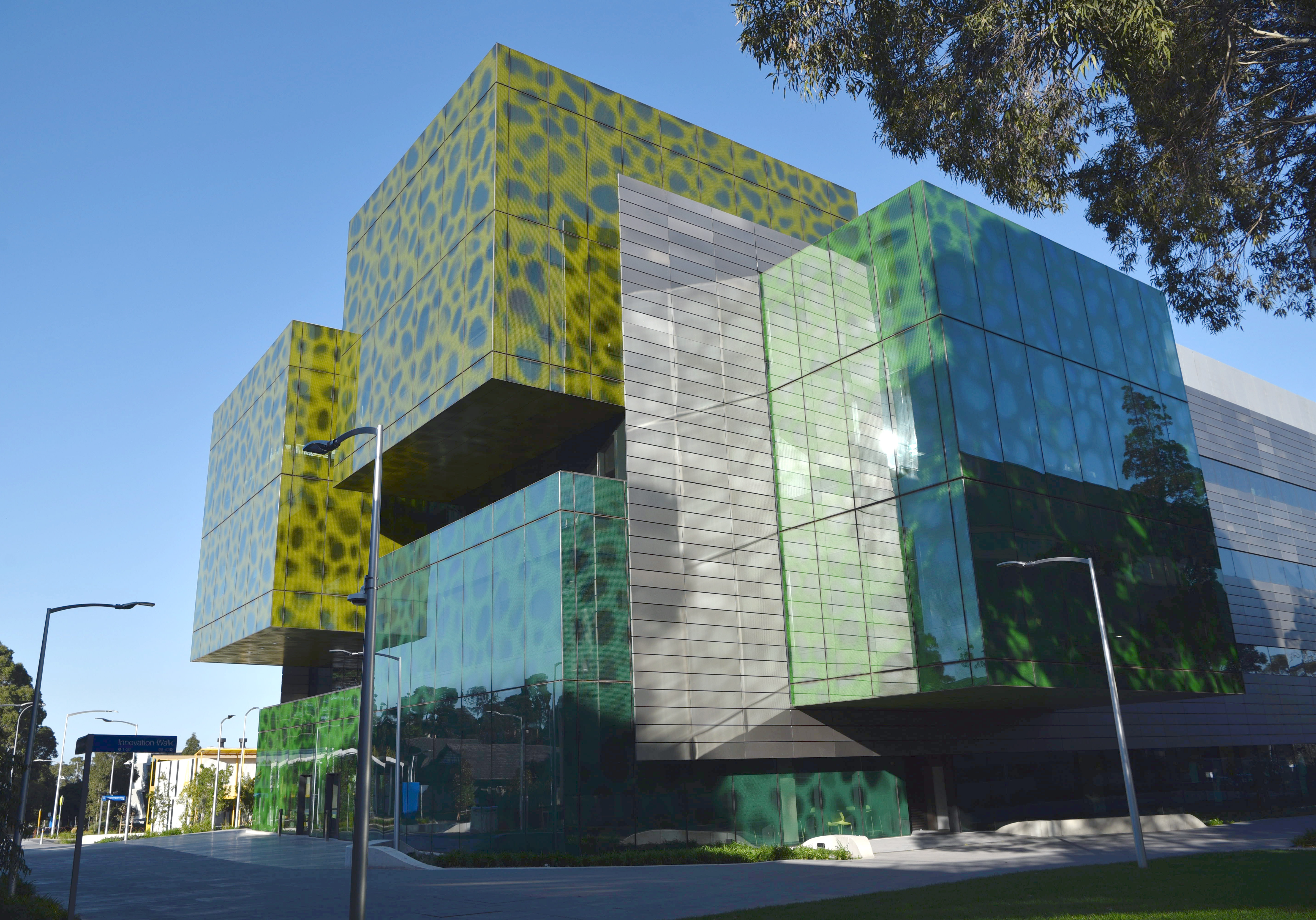 Monash University. Architect: Denton Corker Marshall (DCM) Monash engaged DCM to design the building in 2016, with a brief calling for a “campus marker” that would activate and connect the building with its community, while also sitting within and complement the established campus. The architects said in 2018 that the design “respects the modernist, uncluttered traditions of the original campus masterplan. It is designed to be a highly flexible form, accommodating future changes in pedagogies. It does this by maintaining the orthogonal campus arrangement [and] adopting a rational, linear arrangement derived from internal function.”